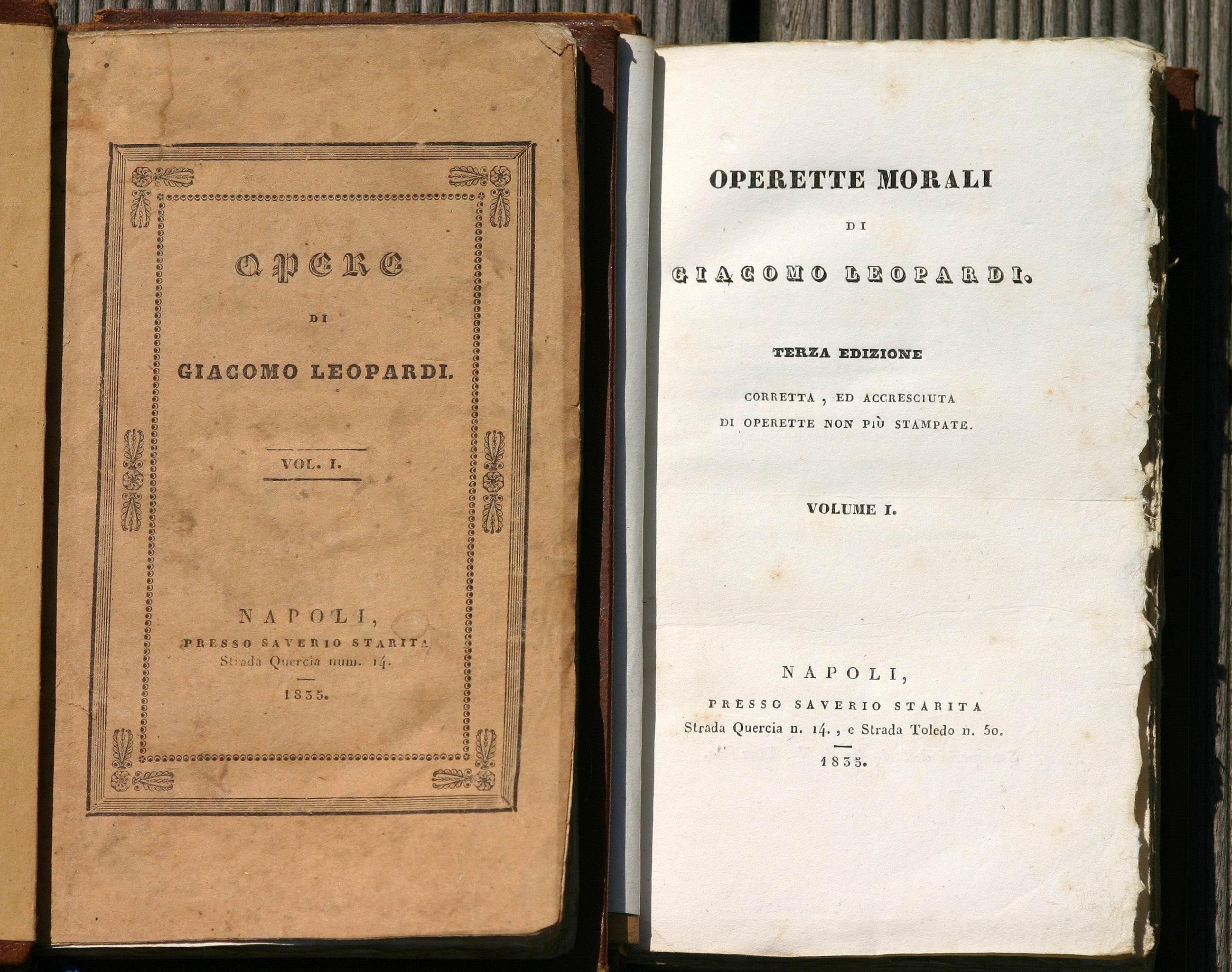 This photograph shows the two first volumes of the edition of Giacomo Leopardi’s Opere (“Works”) which was printed by Stella in Naples (1835). It was the last edition of Leopardi’s works which appeared during his lifetime. The first volume contains the Canti, the second contains the Operette morali, first part. The second part of the Operette never appeared, because the Bourbonian censors prohibited the complete edition and confiscated the volumes already printed. Therefore the two volumes shown here are rather rare today.